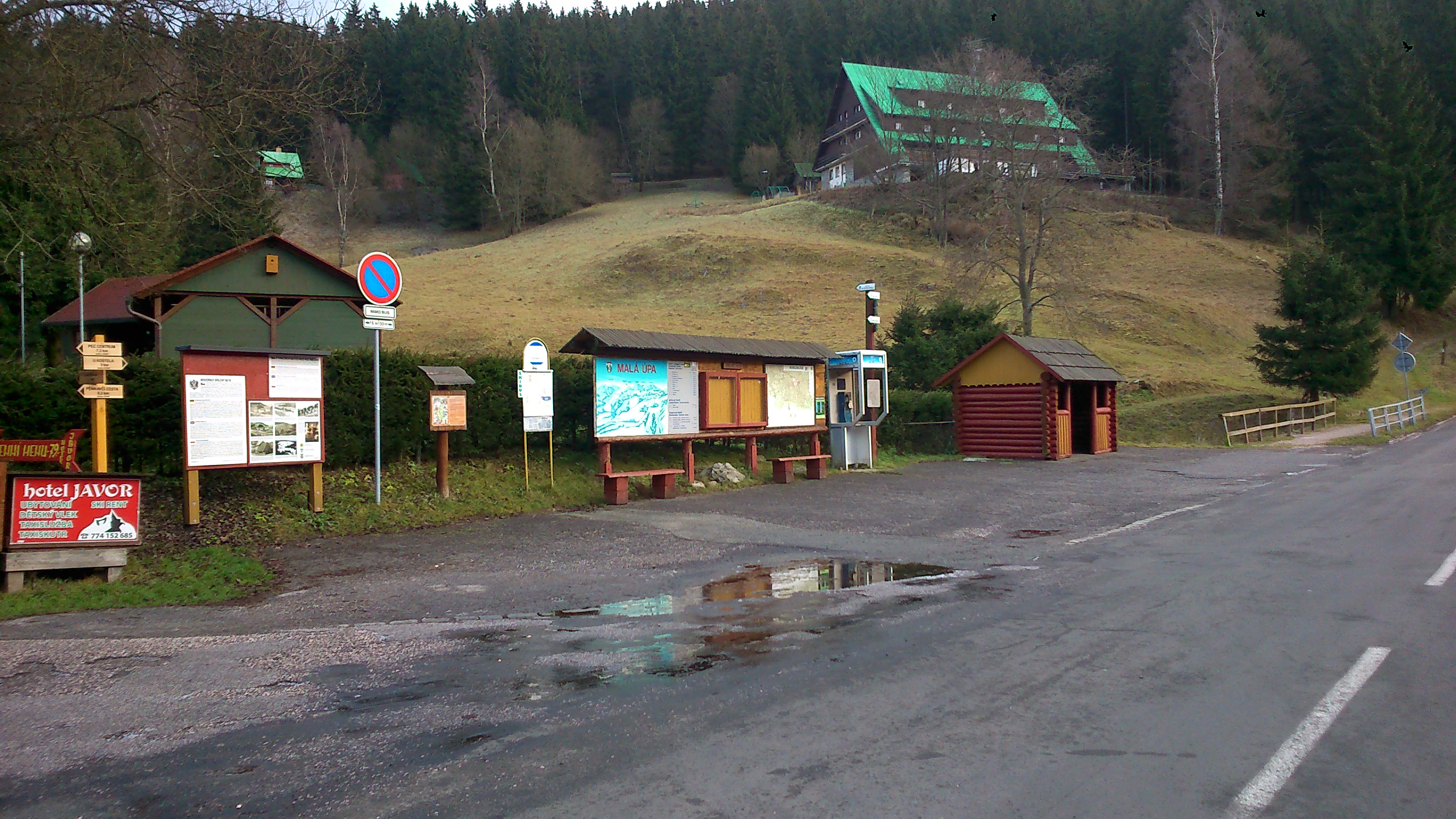 Malá Úpa - village in Czech Republic.